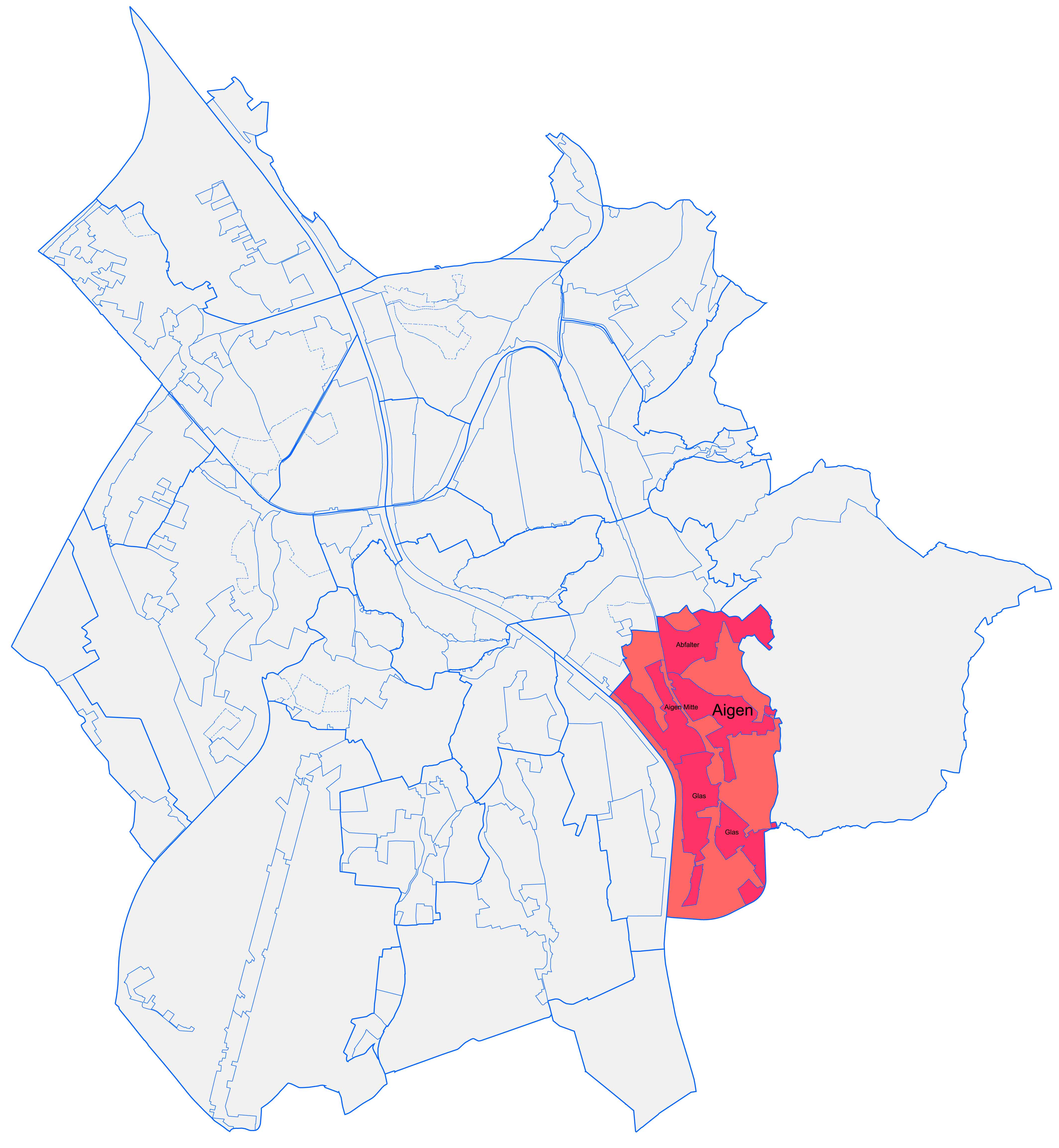 a quarter of the town of Salzburg: Aigen